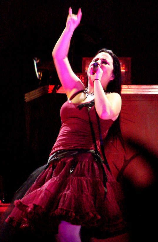 Evanescence at a concert. Photography showing Amy Lee.